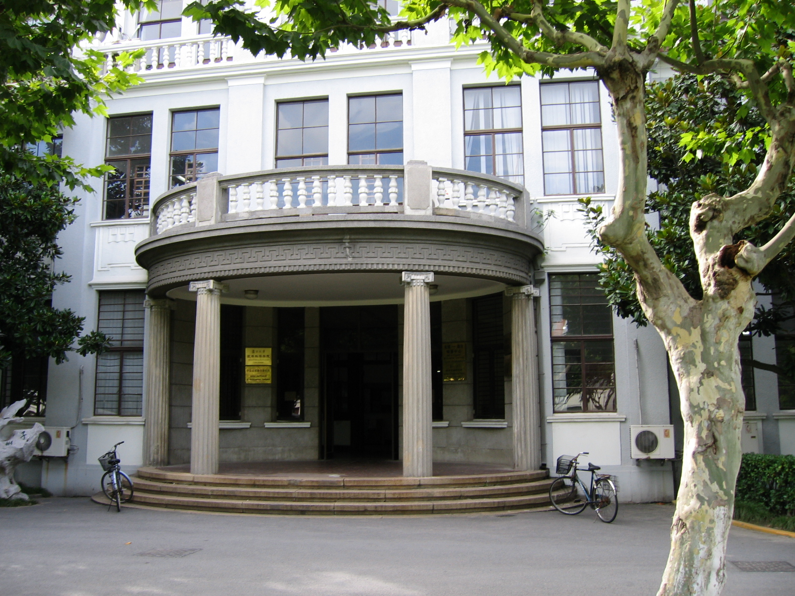 复旦大学数学楼，校园内现存最古老建筑。 The oldest building on Fudan campus, Mathematical Building, Shanghai, China